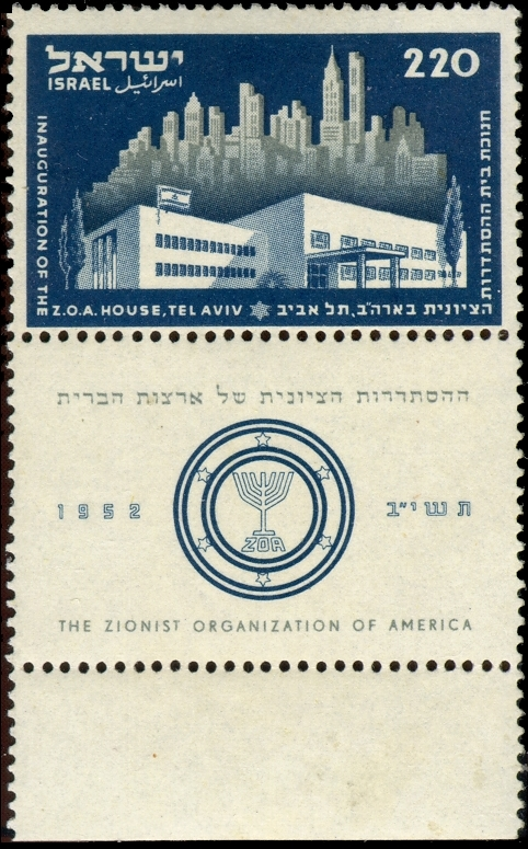 Israeli postage stamp depicting the Zionist Organization of America House in Tel Aviv